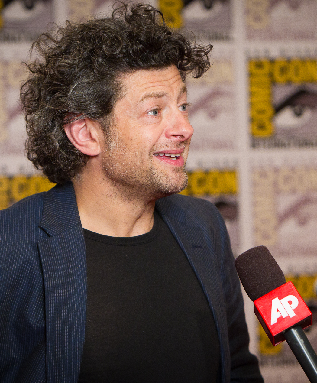 Andy Serkis at the Comic-Con 2011.